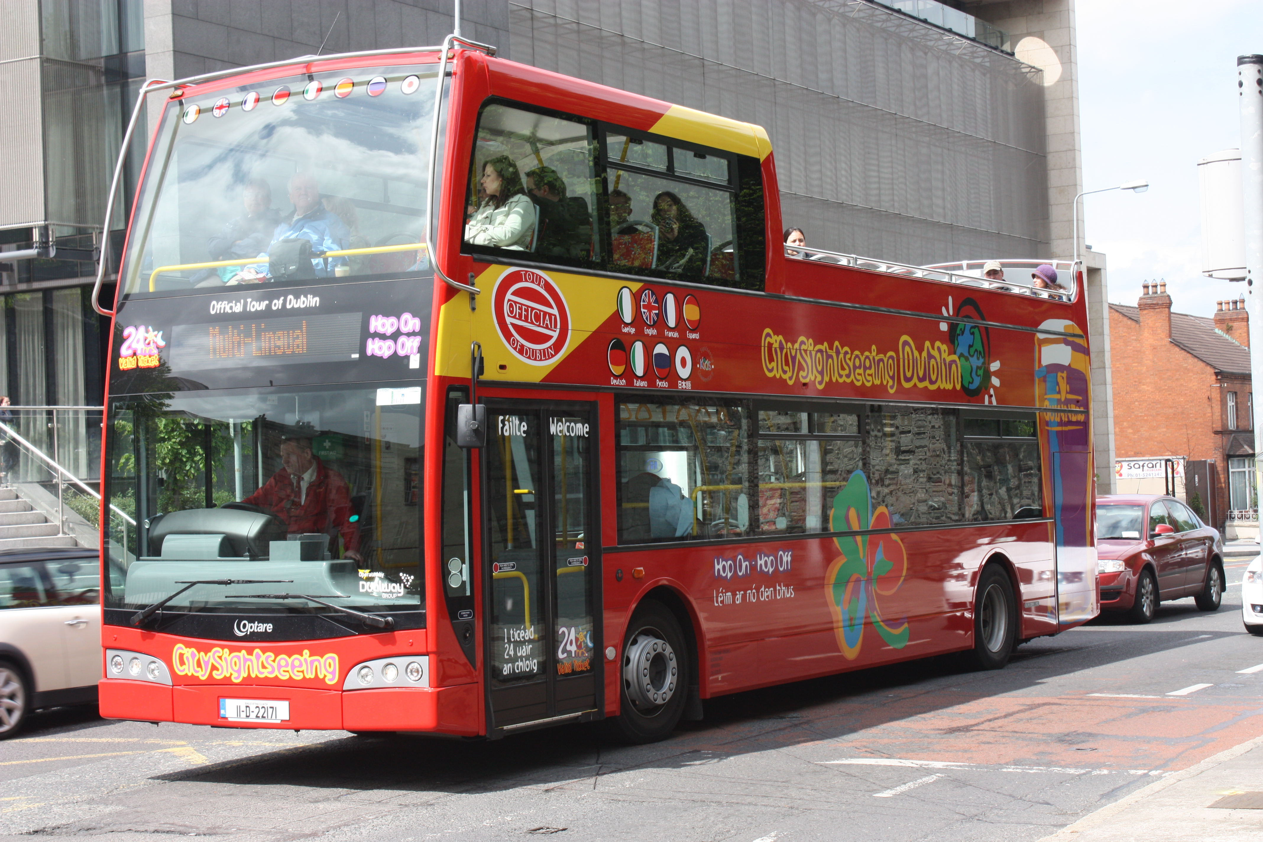 City Sightseeing bus on South Circular Road, Dublin, Ireland, May 2011